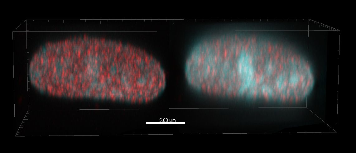 3D-rendering of a fixed HeLa-cell nucleus transgenic for a Histone H2B-GFP fusion protein (displayed in Cyan) and with a scratch replication label highlighting sites of DNA replication (red). Left: recording in confocal mode (pinhole = 1 Airy unit). Right: recording in non-confocal mode (completely open pinhole). View from the side.